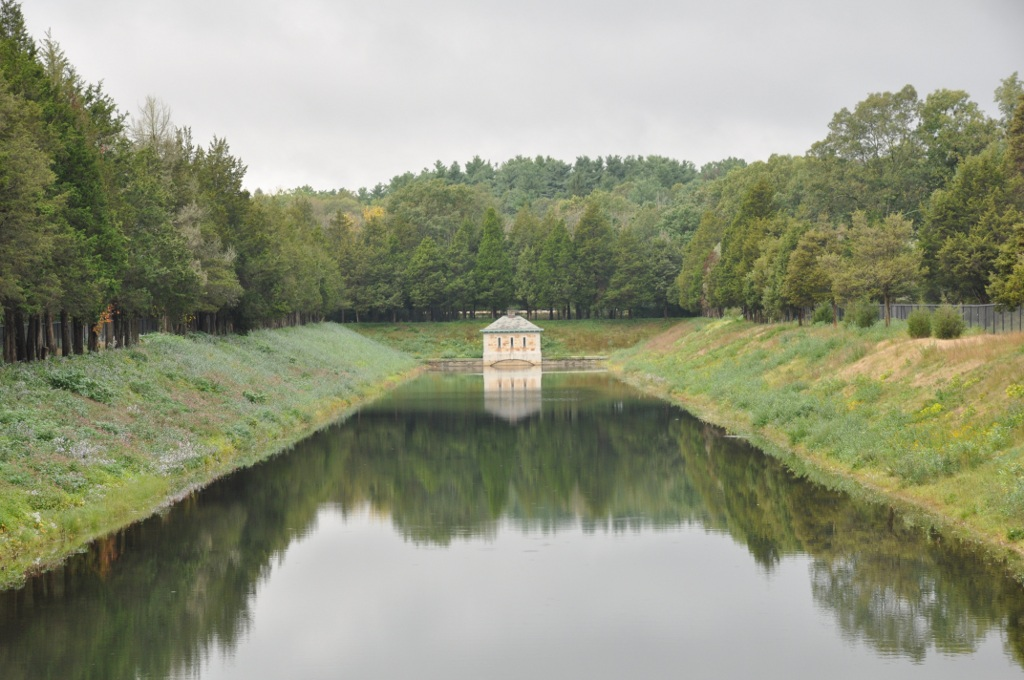 The channel chamber house and open channel at the end of the Weston Aqueduct, at the Weston Reservoir in Weston, Massachusetts. The landscape was designed by the Olmsted Brothers landscape firm.